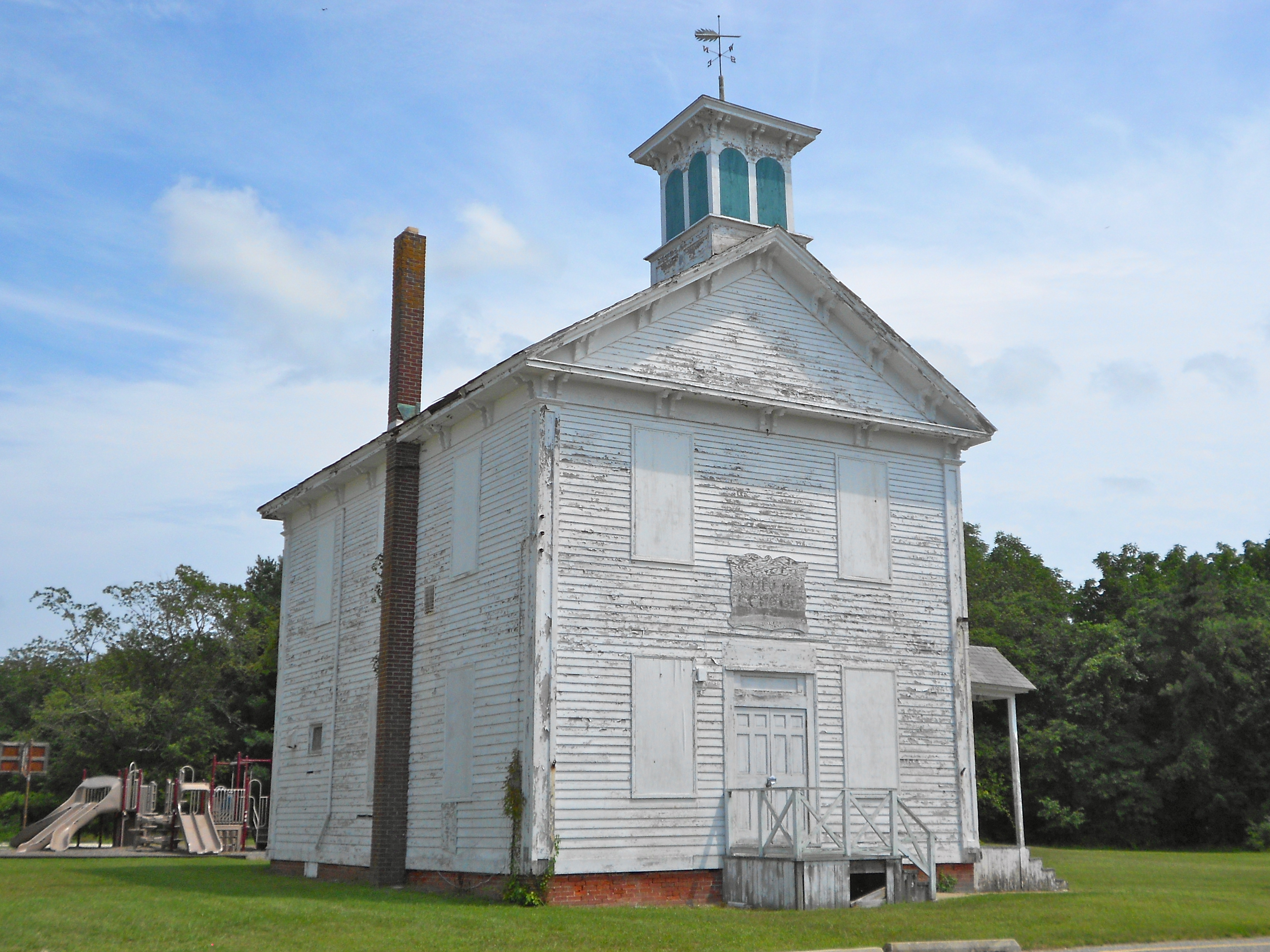 Goshen School, listed on the NRHP on May 12, 2014 (#14000202) Located at 314 N. Delsea Dr., in the Goshen area of Middle Township, Cape May County, New Jersey